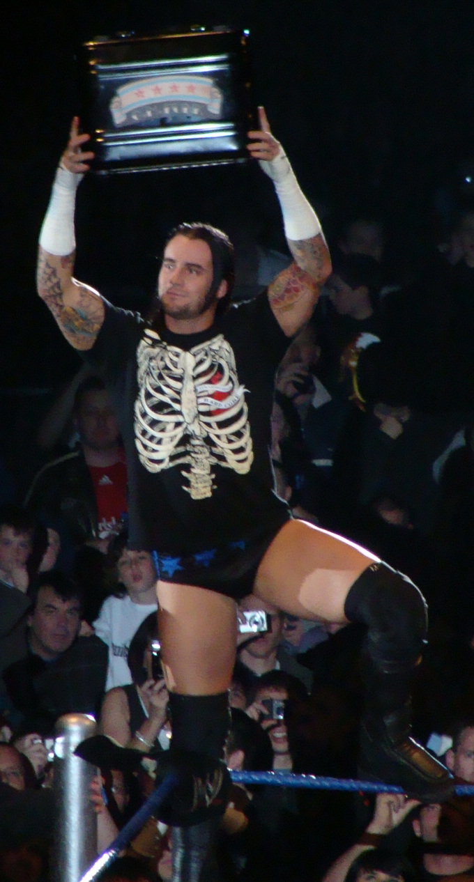 CM Punk during his first Money in the Bank reign